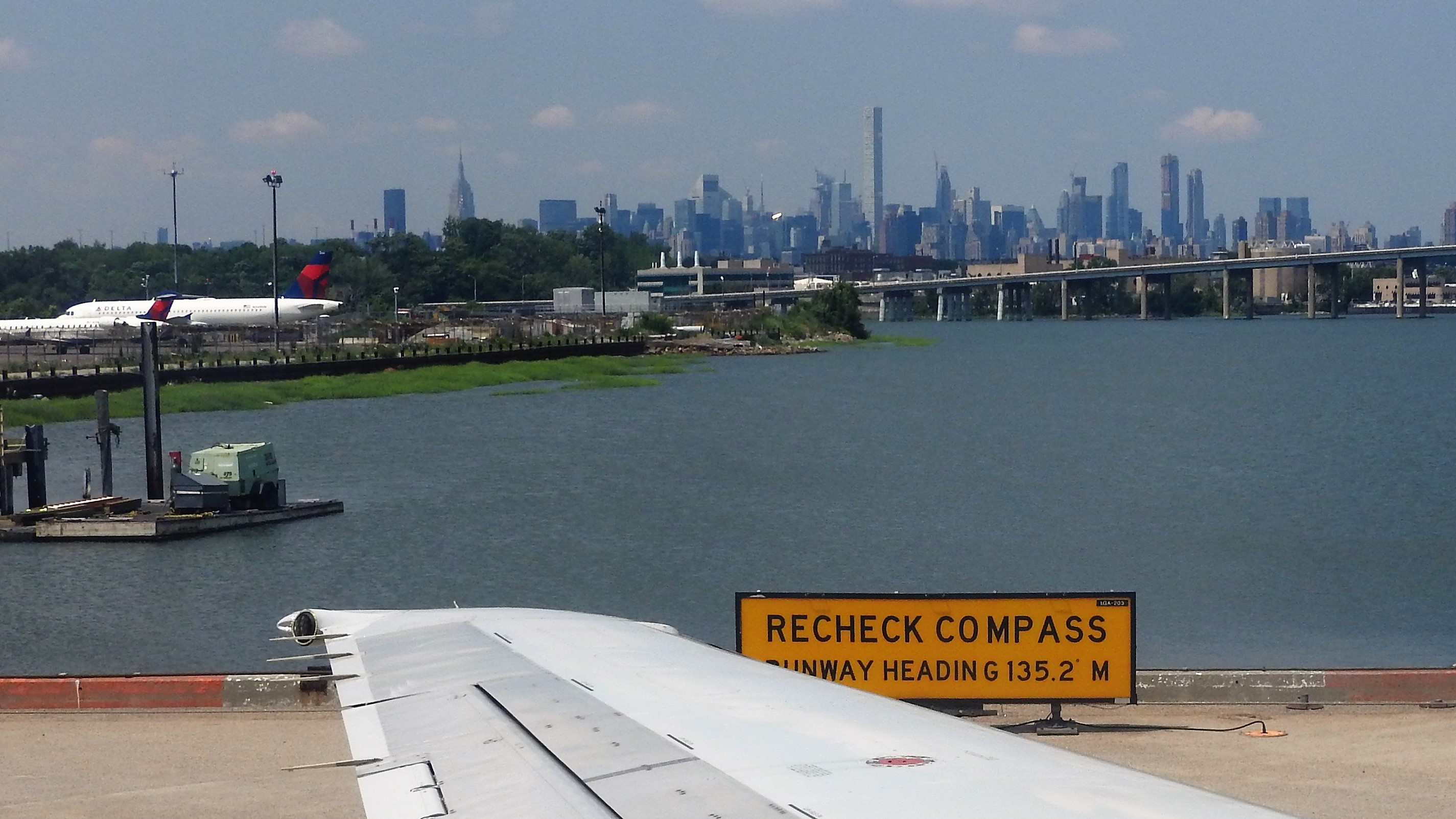 Looking west at compass check warning sign, beside taxiway to runway 13